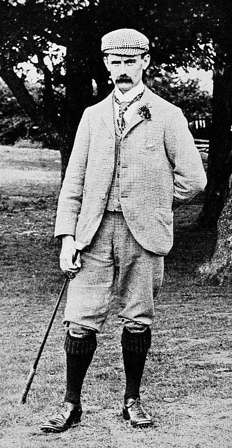 English amateur golfer John Ball Junior, circa 1900.